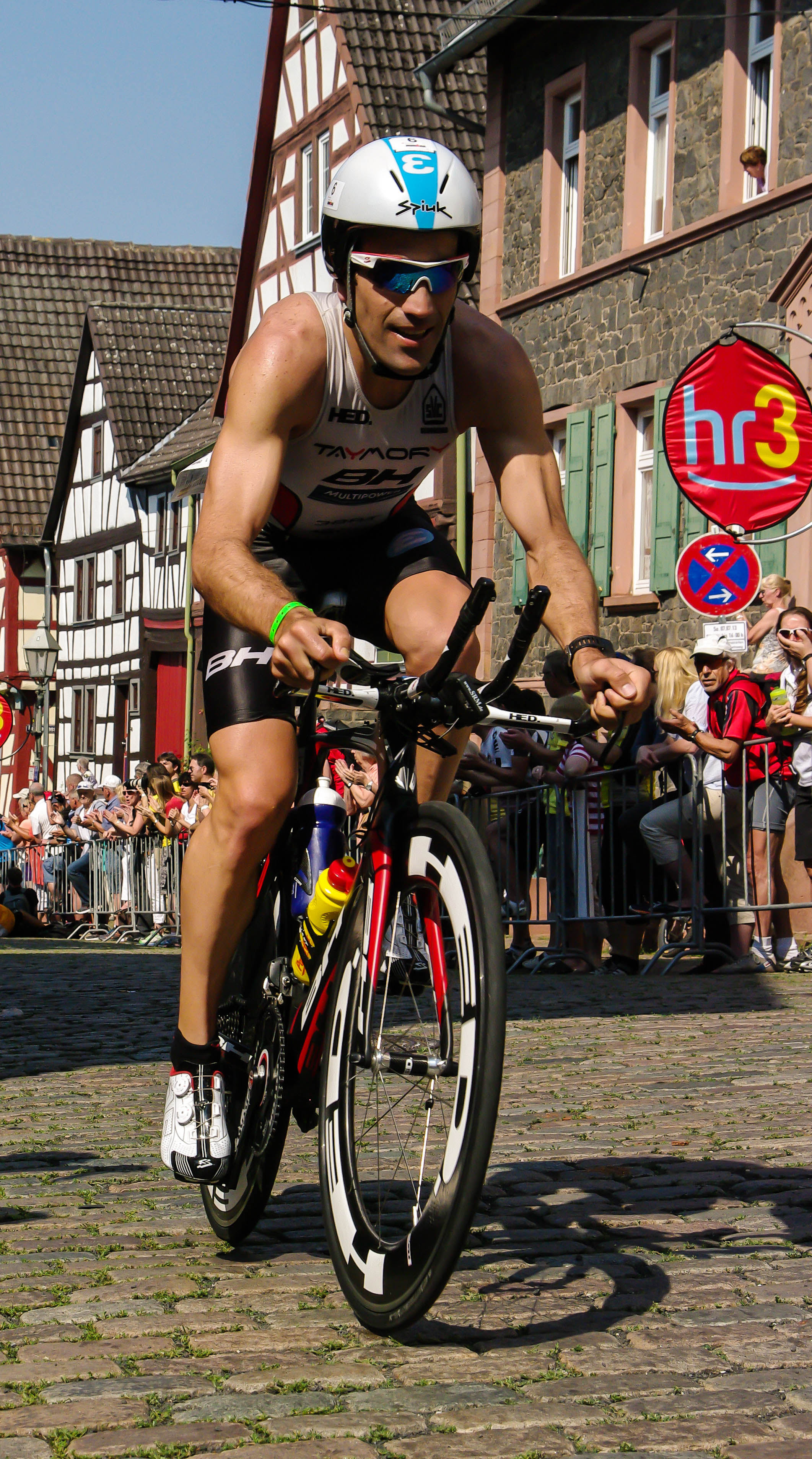 Eneko Llanos Ironman 2013 Frankfort